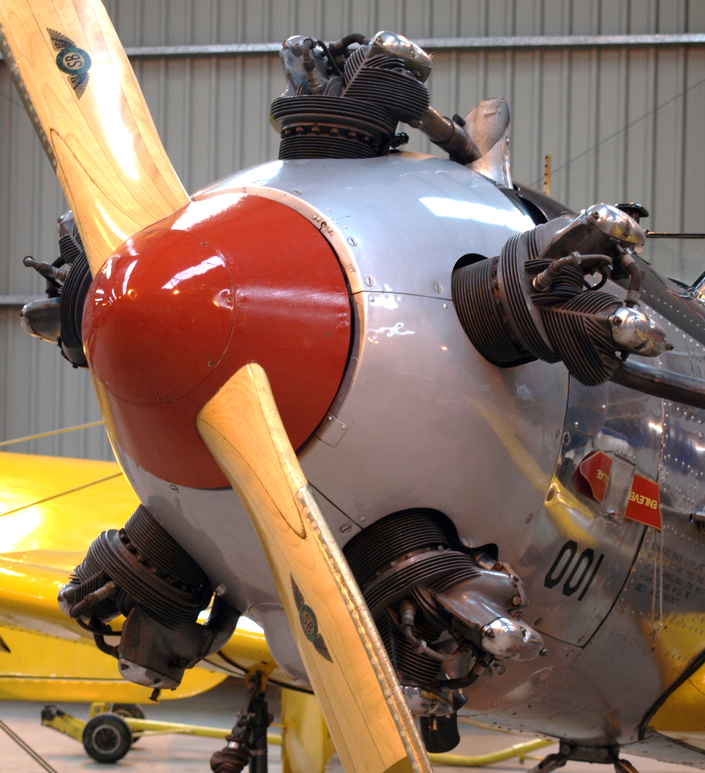 Kinner R-56 radial aircraft engine installed in a Ryan PT-22 Recruit at the Shuttleworth Collection